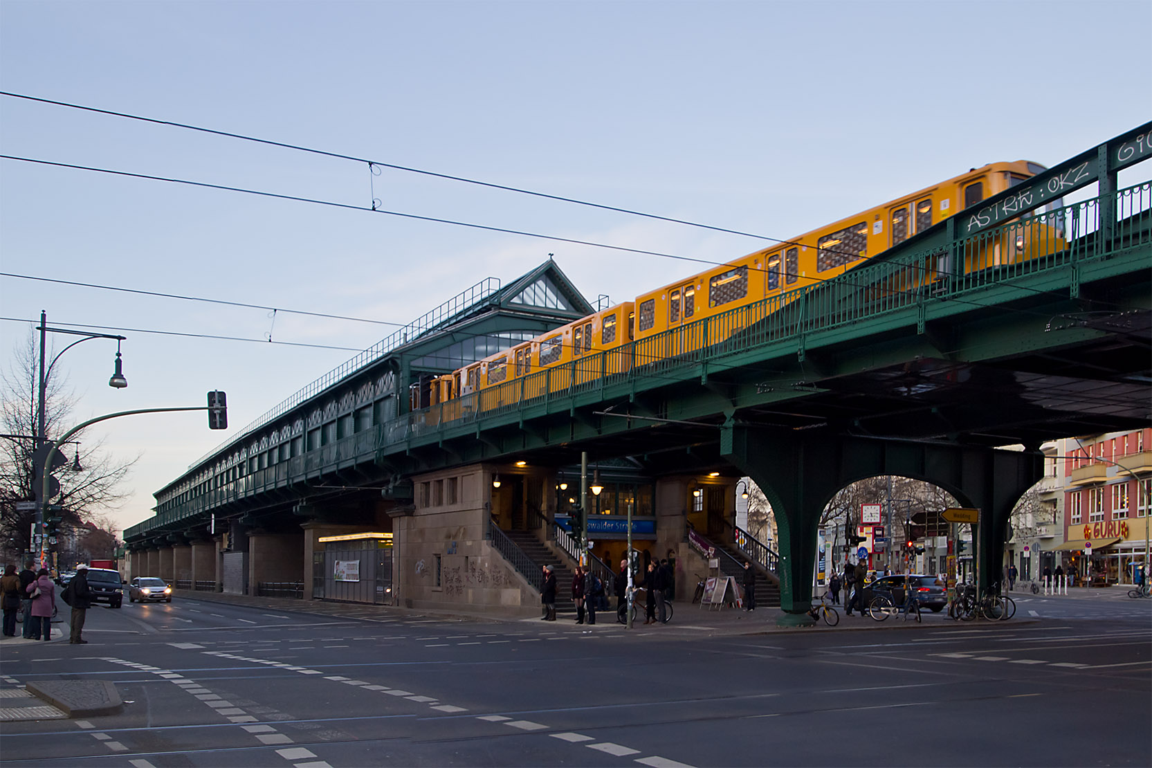 Underground station U2 Eberswalder Straße as seen from Eberswalde/Schönhauser Straße, Berlin-Prenzlauer Berg.